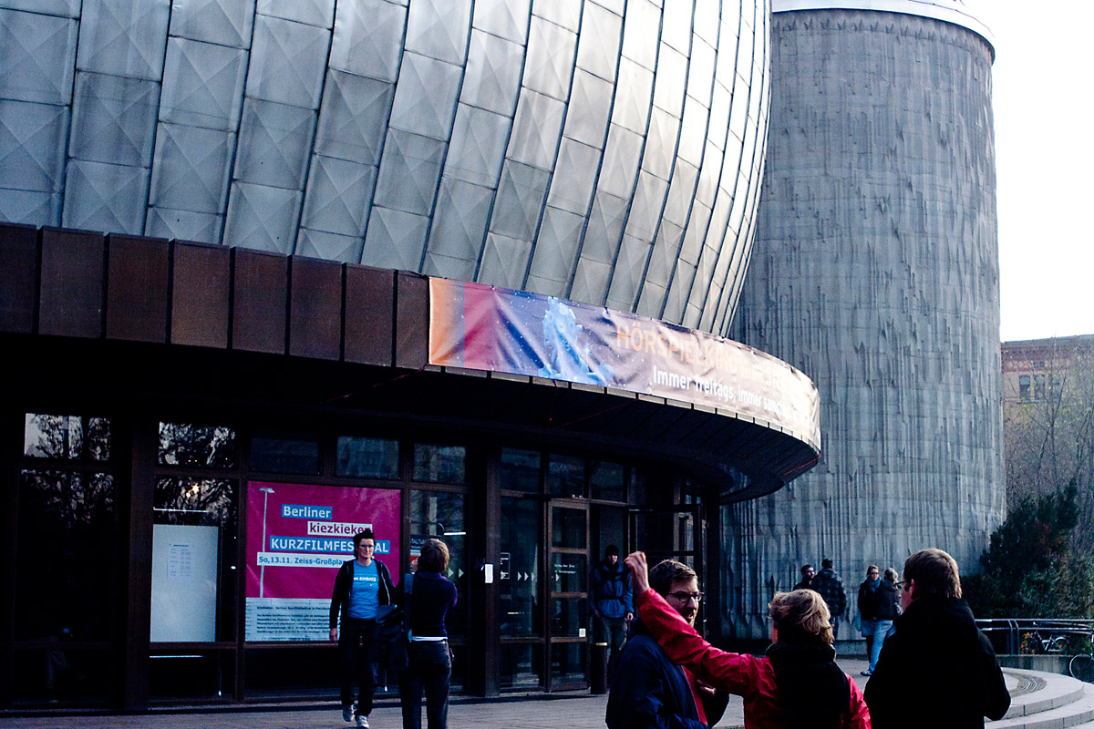 Zeiss-Großplanetarium, Foto: Oliver Petrus